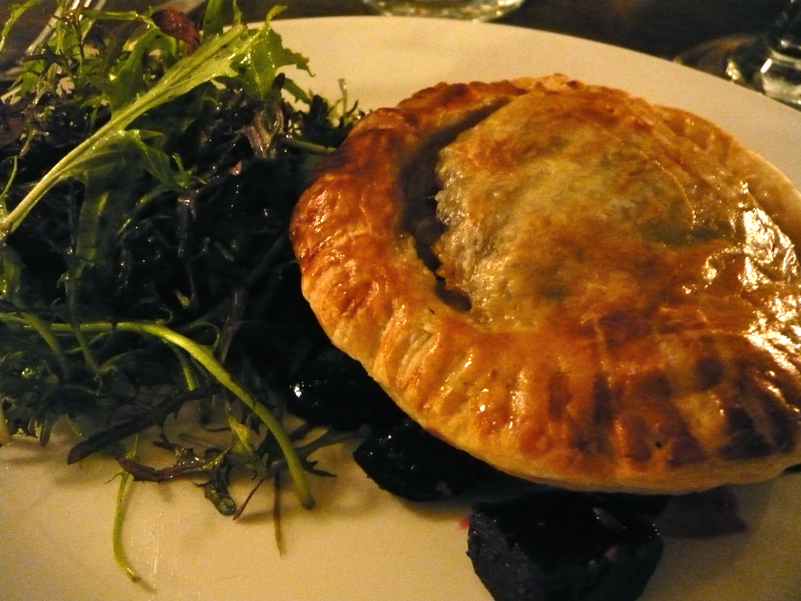 At the Winding Stair in Dublin.